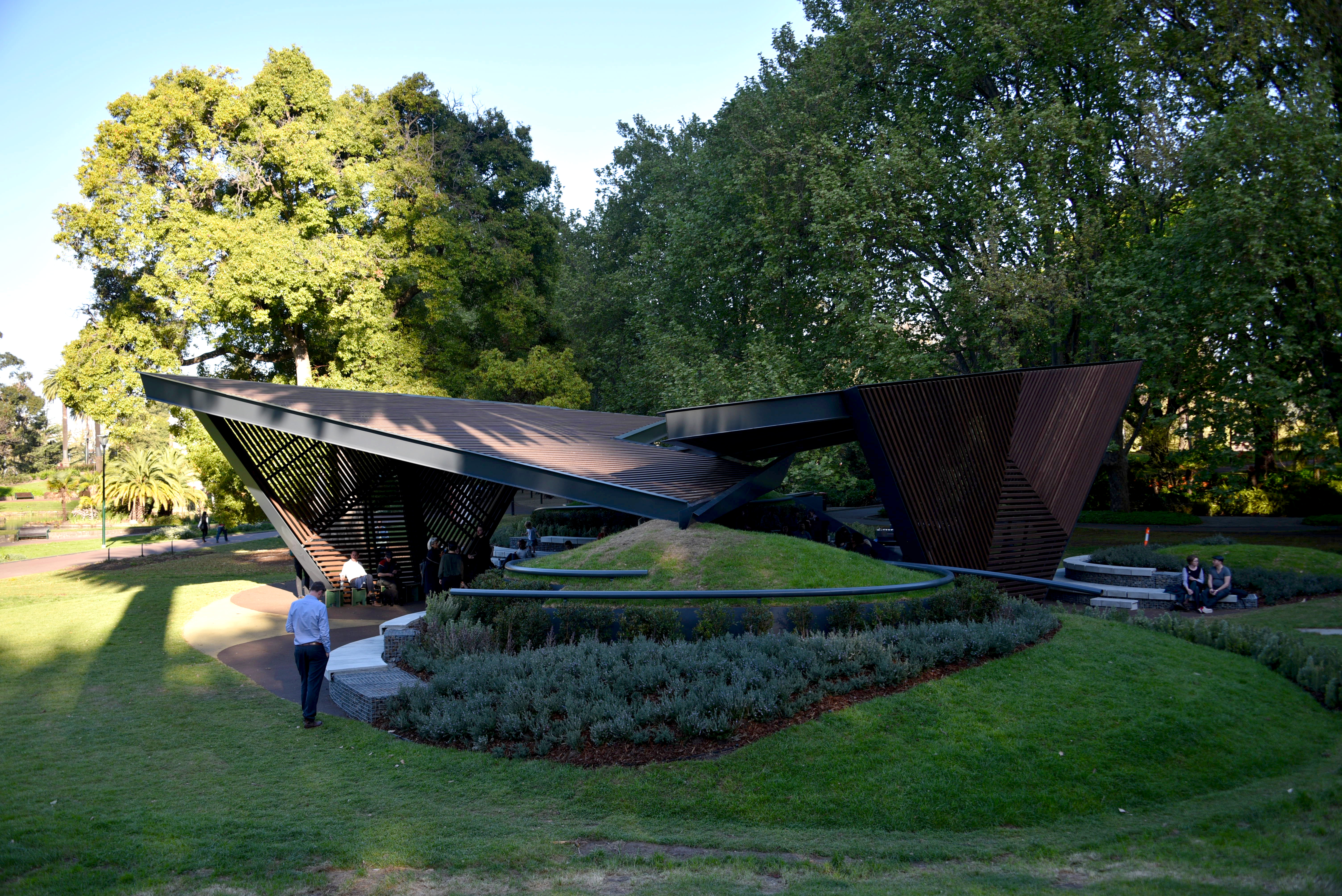 Temporary MPavilion in Queen Victoria Gardens, Melbourne, designed by Carme Pinós